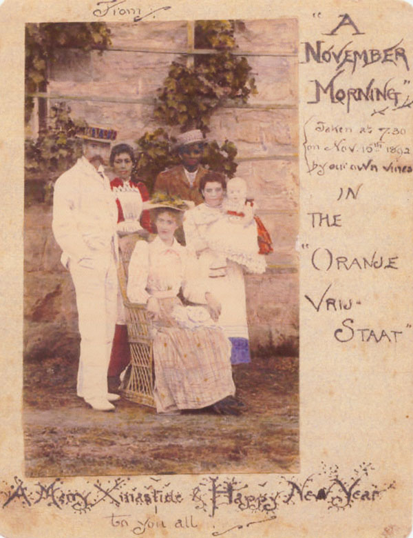 Handwritten Christmas card with a coloured photo of the Tolkien family, sent by Mabel Tolkien from the Orange Free State to her relatives in Birmingham, on November 15, 1892.